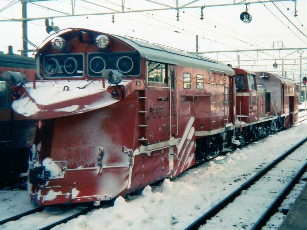 JR East diesel locomotive DD16 303 with a snowplough attached at Oito Line Shinano-Omachi Station